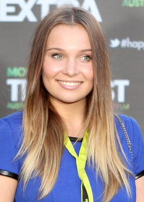 Marny Kennedy at Tropfest 2012 in Sydney, Australia